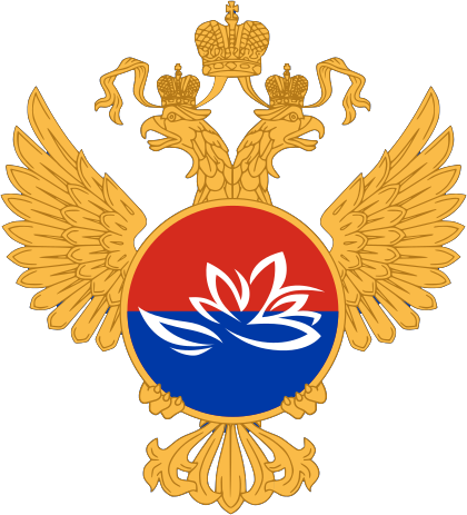 Emblem of the Ministry for Development of Russian Far East